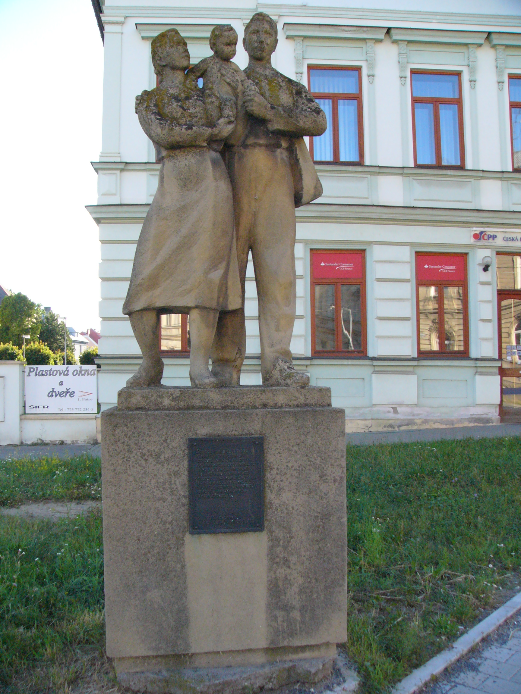 Statue Dělnická rodina in Olomouc (Czech Republic).